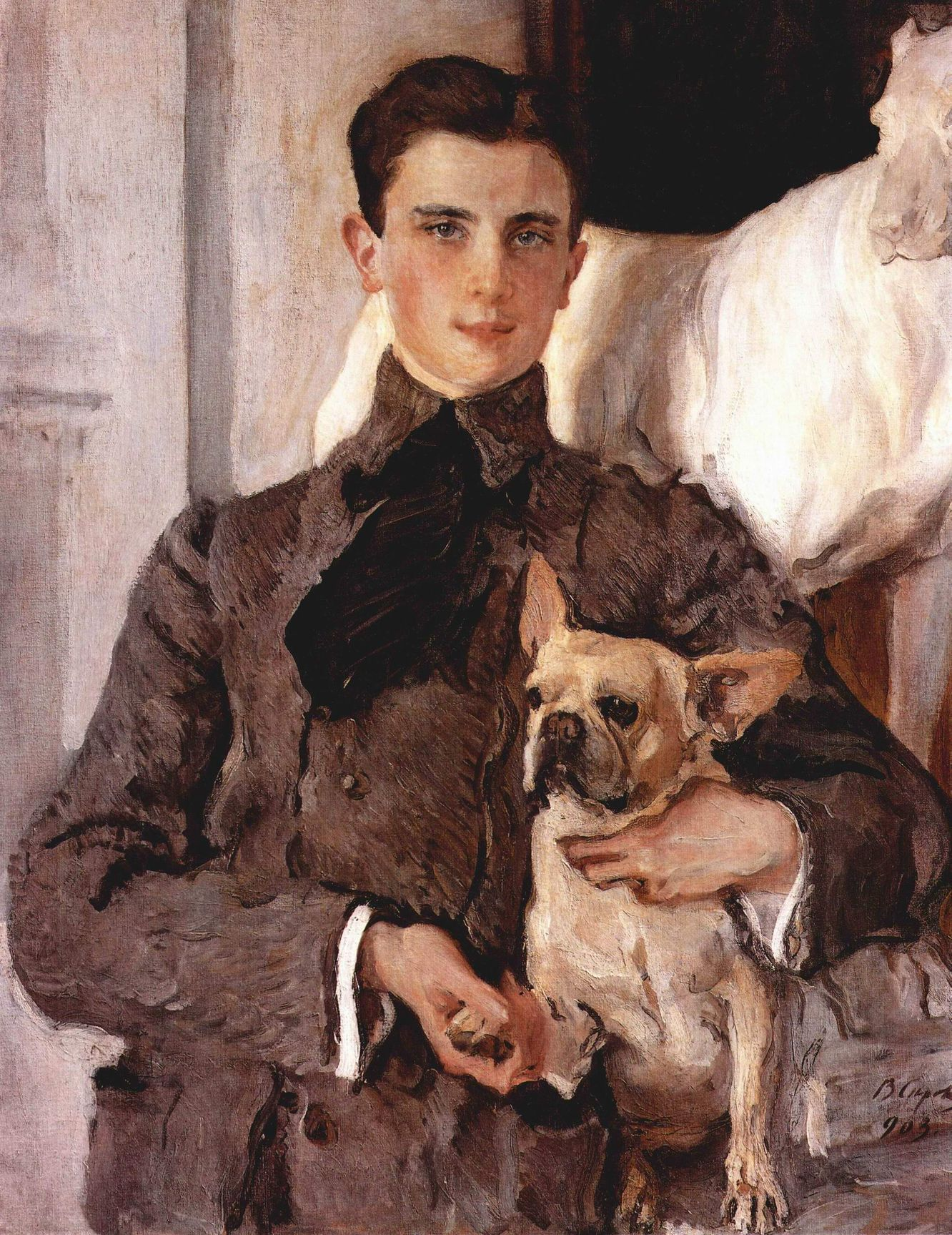 Portrait of Count Felix Sumarokov-Elstone, later Prince Yusupov